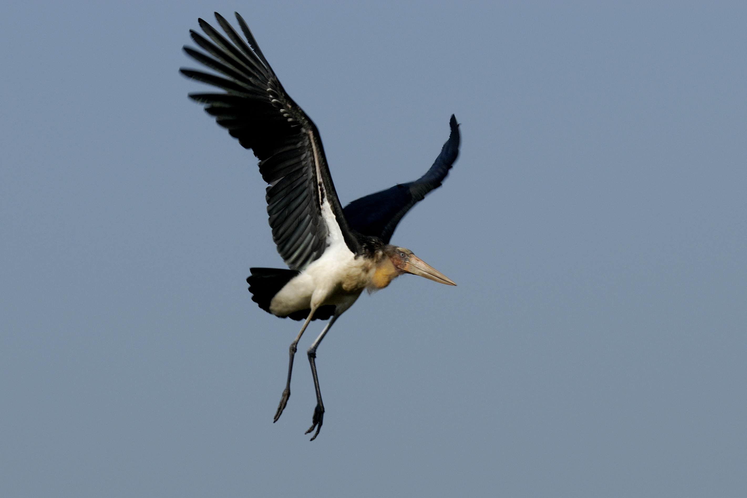 Argala, Chitwan National Park - Lesser rather than Greater Adjutant as it has a pale skull cap